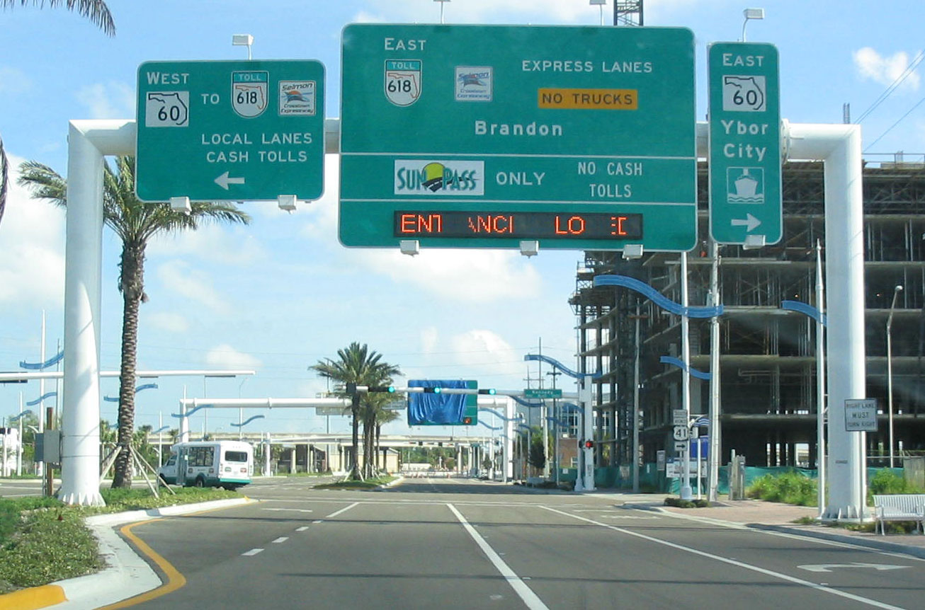 Meridian north (SR 60 east) at JFK in Tampa, Florida, taken August 6, 2006 by SPUI. The entrance to the Crosstown Expressway reversible lanes is ahead in a few blocks.